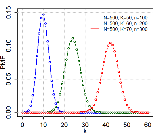 Hypergeometric PDF plot